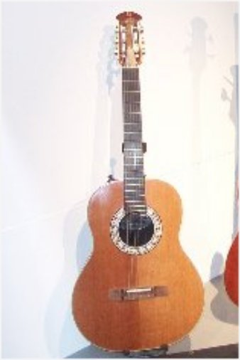 Guitar Ovation Clasical from Roger Waters' private collection. Read the story at . Lire le compte-rendu de l'expo sur